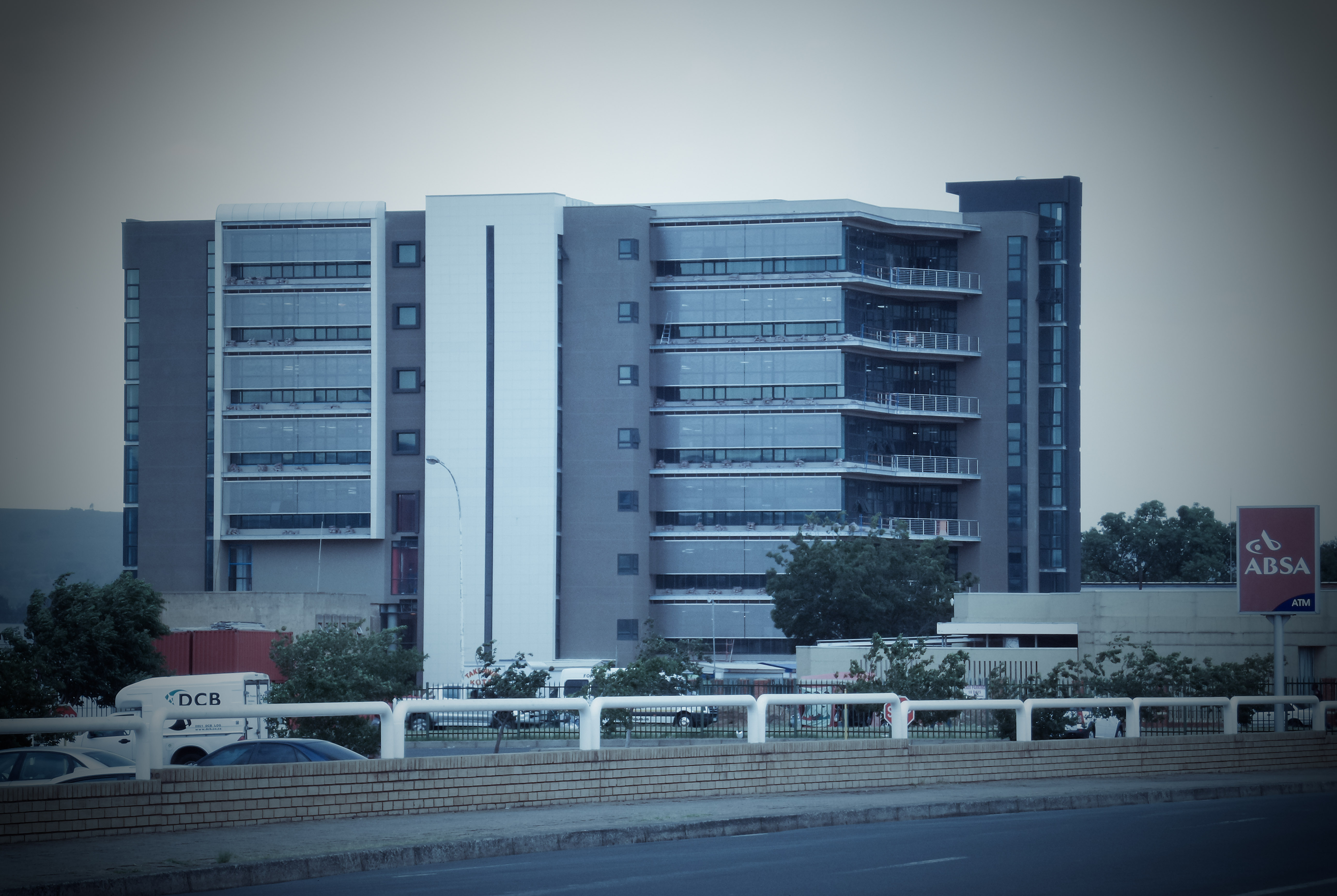 Newcastle Civic Center